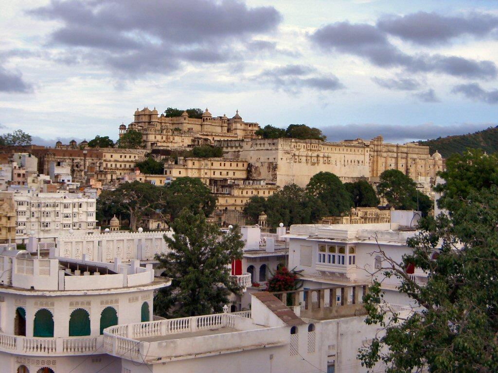 A view of the city palace in Udaipur, in Southern Rajasthan. As seen in James Bond - Octopussy.